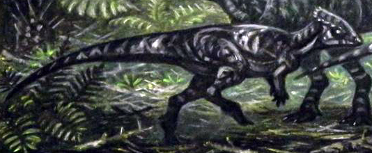 'Goyocephale.